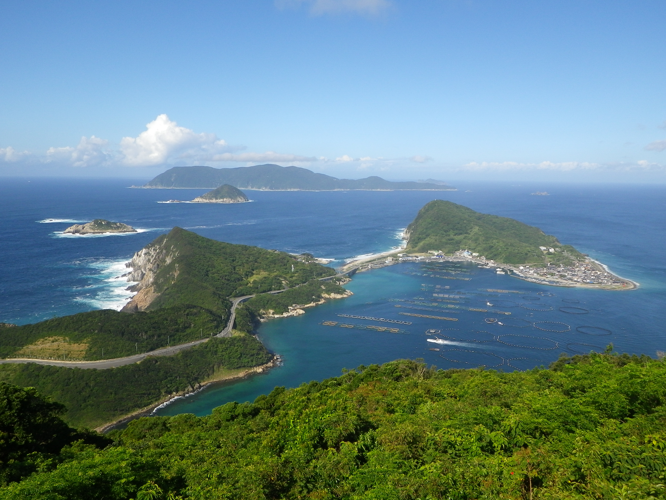 Okinoshima and Kashiwajima